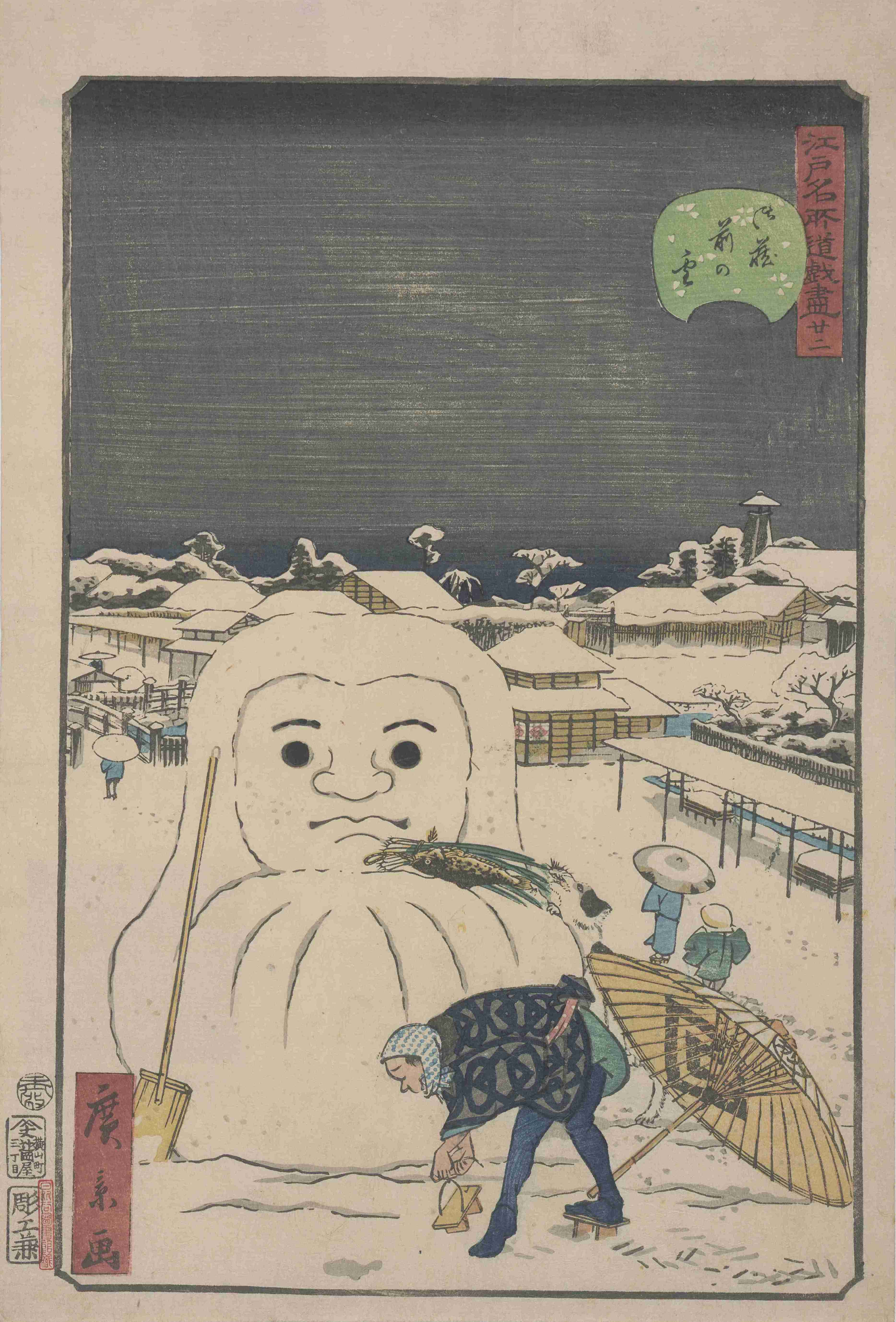 No. 22, Snow in Front of the Official Storehouses (Onkura mae no yuki), from the series Comical Views of Famous Places in Edo (Edo meisho dôke zukushi). Dog stealing a workman's meal from a snow Daruma from the woodblock series Edo meisho dôke zukushi (Joyful Events in Famous Places in Edo) by Hirokage